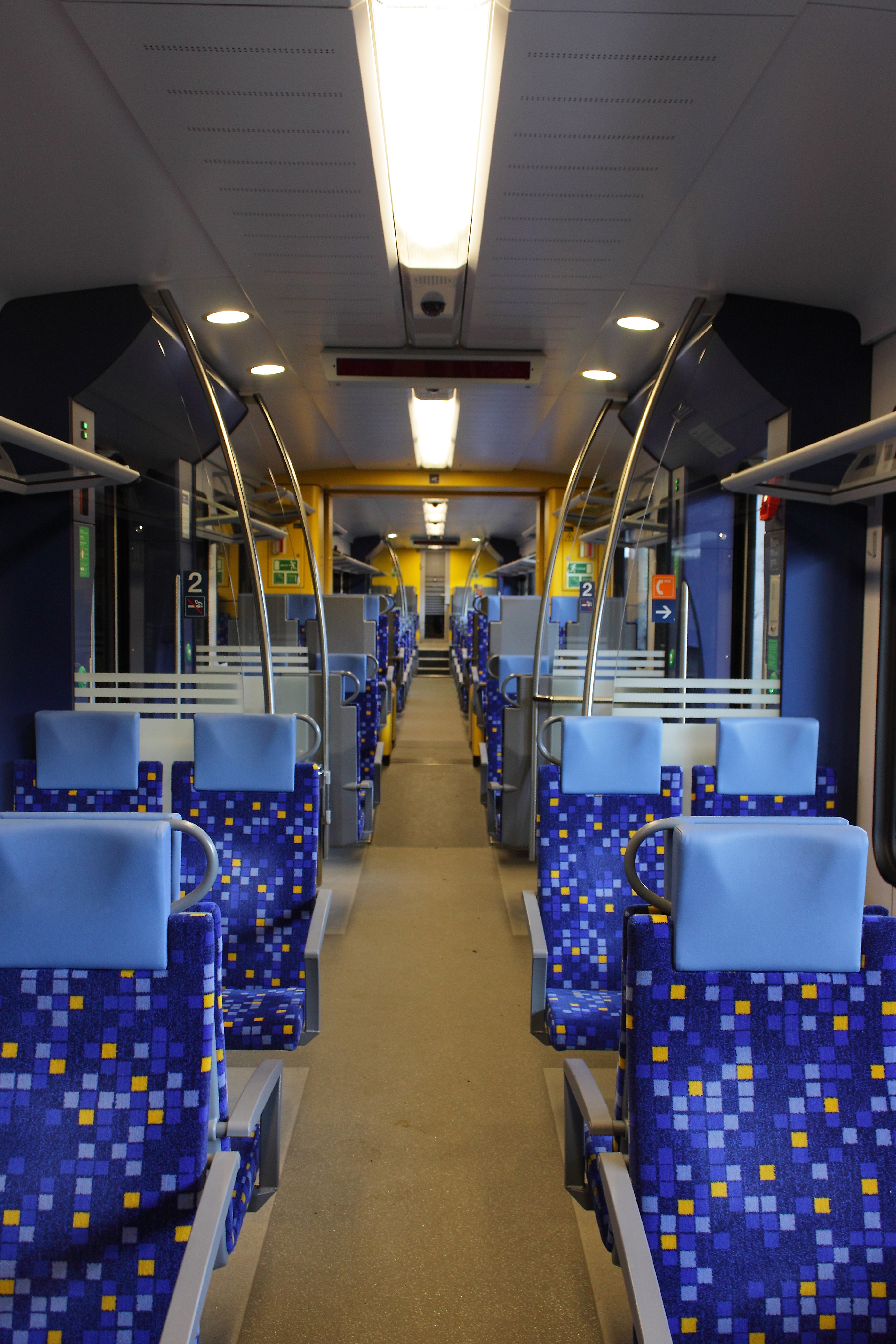 Enterior of a Hungarian State Railways (MÁV)-operated Stadler FLIRT commuter train. The company operates 60 units of this EMU-s (as for April, 2011). Name is acronym for 'Fast Light Innovative Regional Train'.